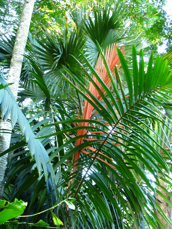 Calyptrocalyx albertisianus, Tangerine-coloured new frond on this species from New Guinea. Photographed in the Flecker Botanic Gardens, Cairns.